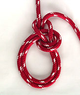 Bowline on a Bight (Alan W. Grogono)